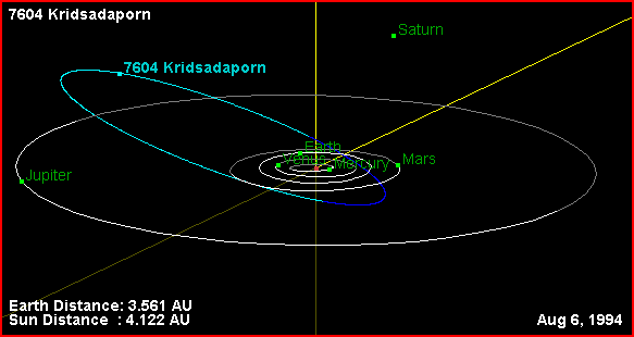 Trajectory of 7604 Kridsadaporn